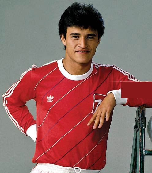 Claudio Borghi in a photo production for El Gráfico sports magazine.